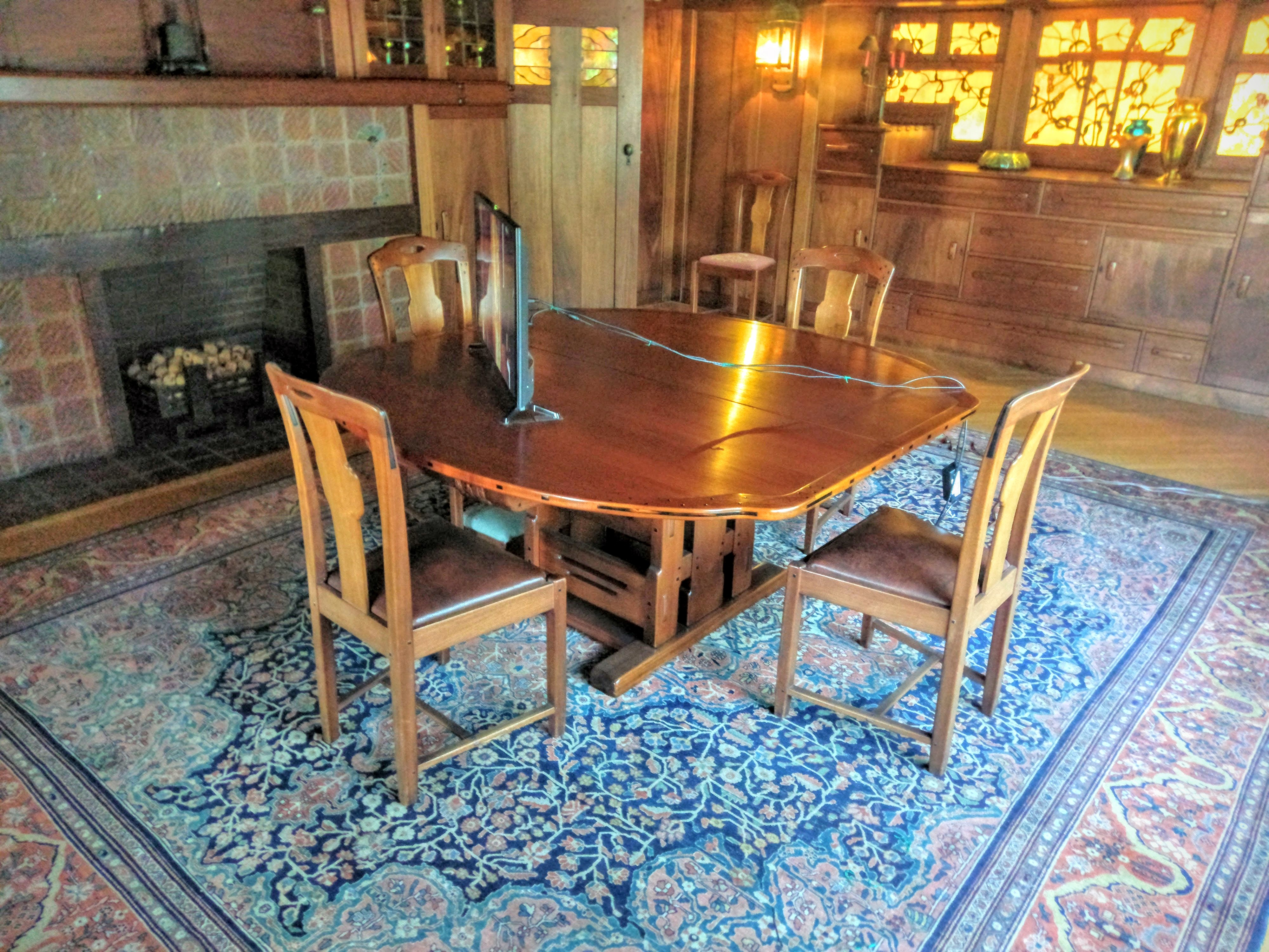 An interior view of the Gamble House in Pasadena, California. Photo by Jim Heaphy.